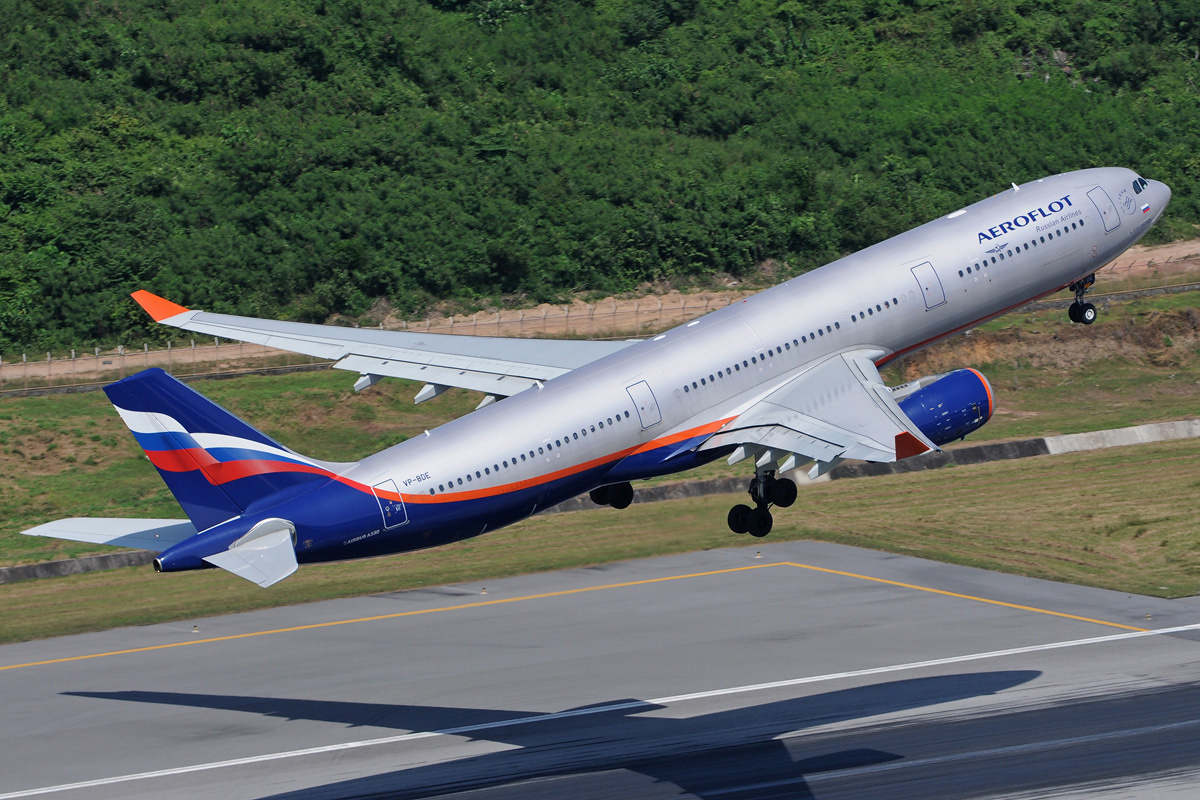 Aeroflot Airbus A330-300 taking off from Phuket International Airport